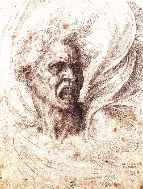 MICHELANGELO Buonarroti The Damned Soul Black ink, 35,7 x 25,1 cm Galleria degli Uffizi, Florence